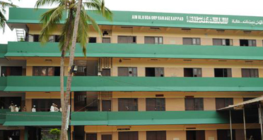 Ainul Huda Orphanage, Kappad